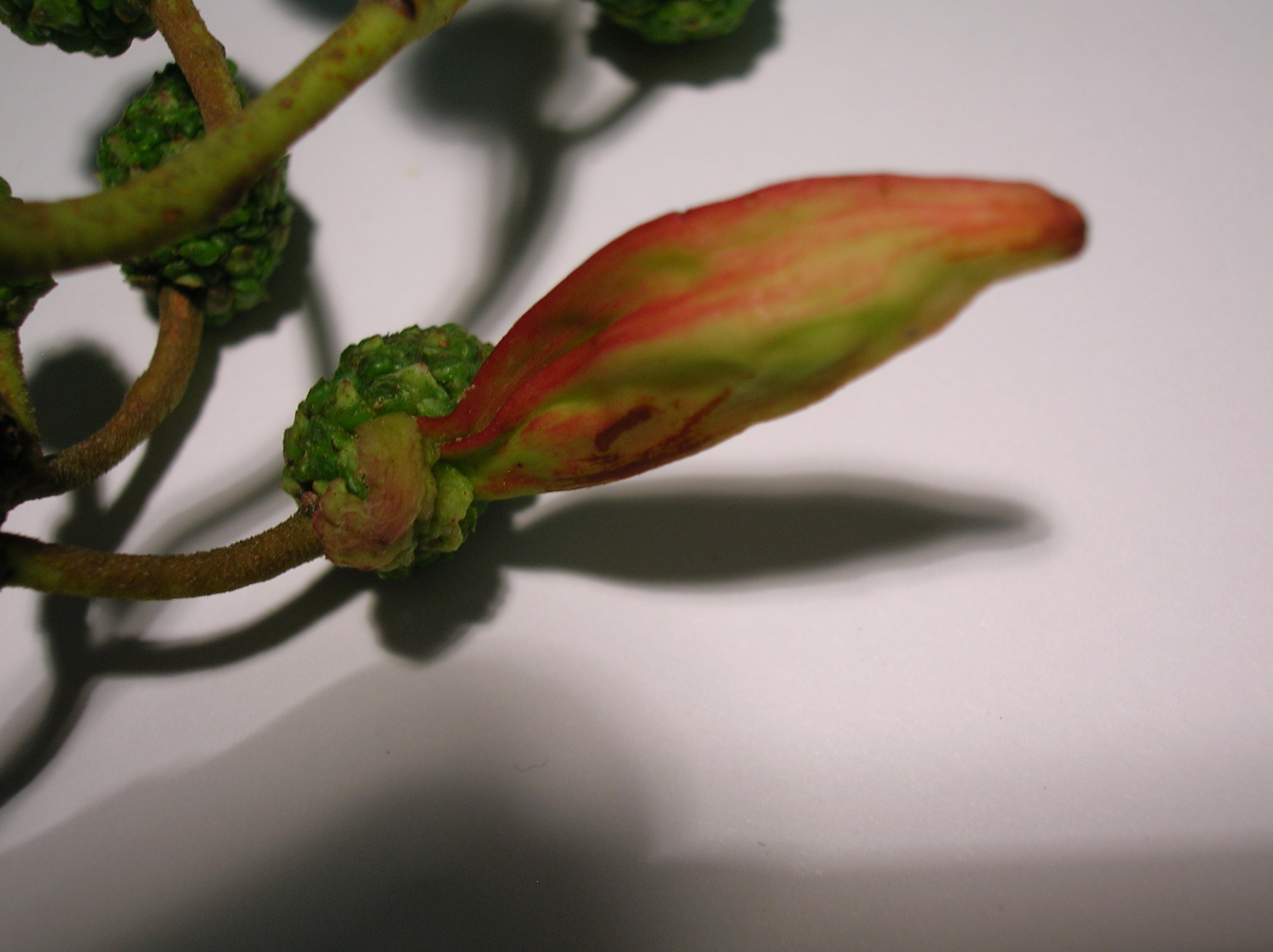 Young Taphrina alni languet. Eglinton, Kilwinning, Scotland. On alder.